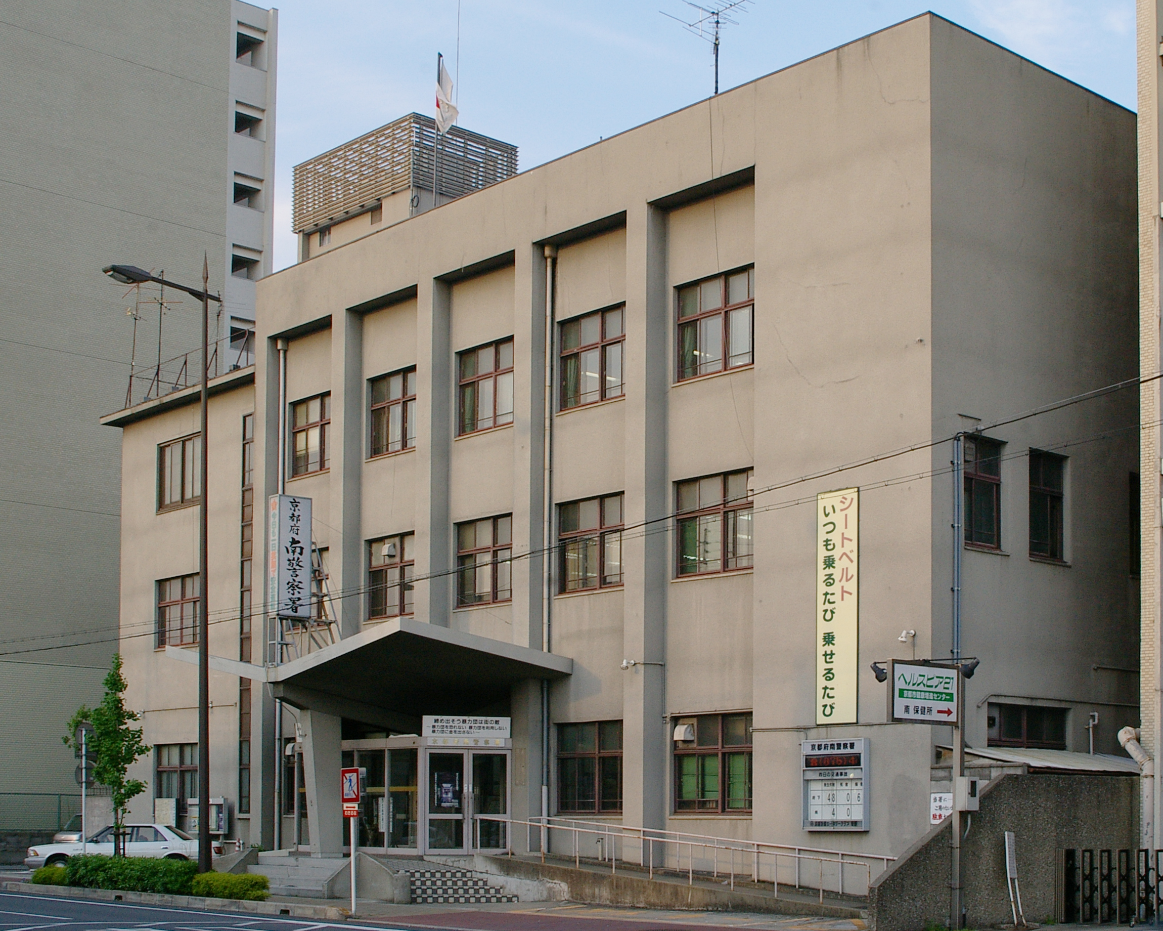 Photograph of Minami Police Station in Minami-ku, Kyoto, Kyoto Prefecture, Japan.